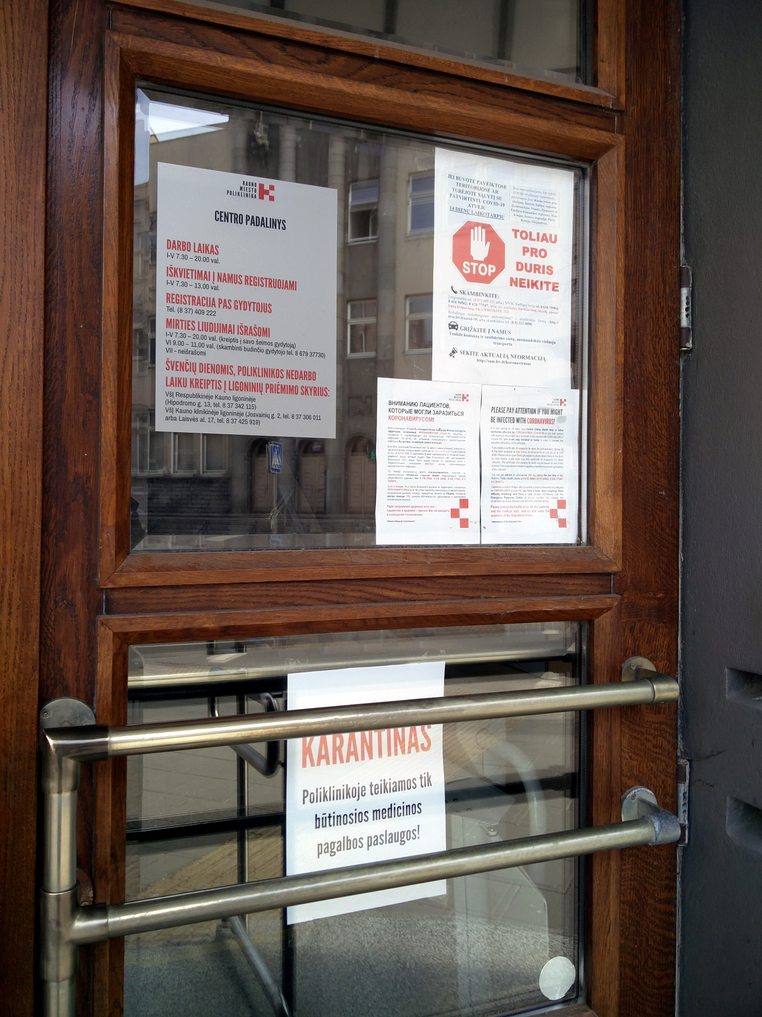 Warnings about quarantine at the entrance to Kaunas city polyclinic Center's branch (Kaunas, Lithuania).